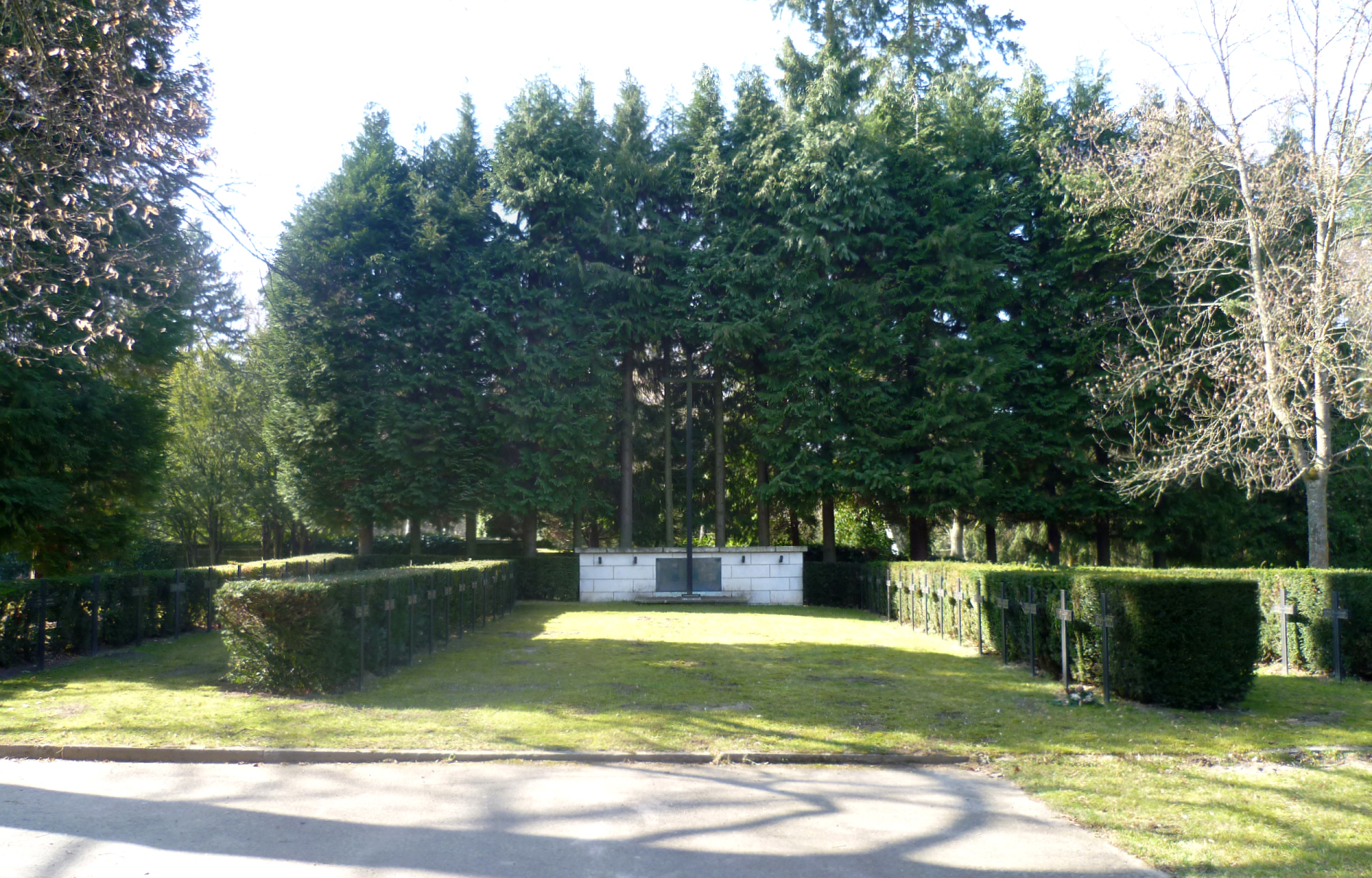 Memorial for the victims of the explosion 1933 in Neunkirchen (Saar)